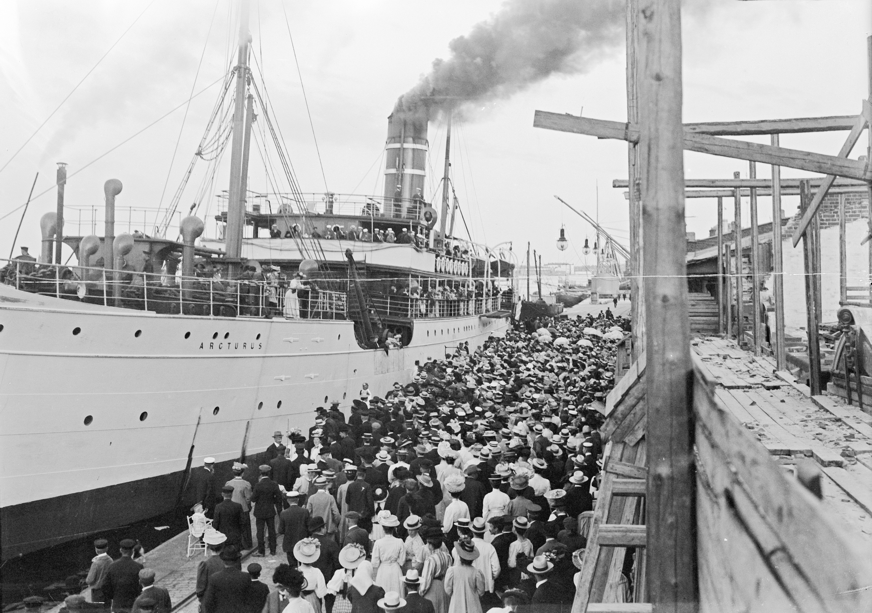 Ångfartyget ”Arcturus” avgår från Södra hamnen. Foto Gustaf Sandberg. sls1849_408 Ur boken Helsingfors i ord och bild Utgiven av Svenska litteratursällskapet i Finland, 2012